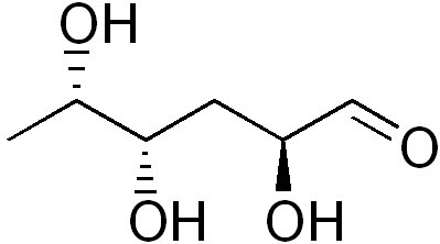 chemical structure of colitose